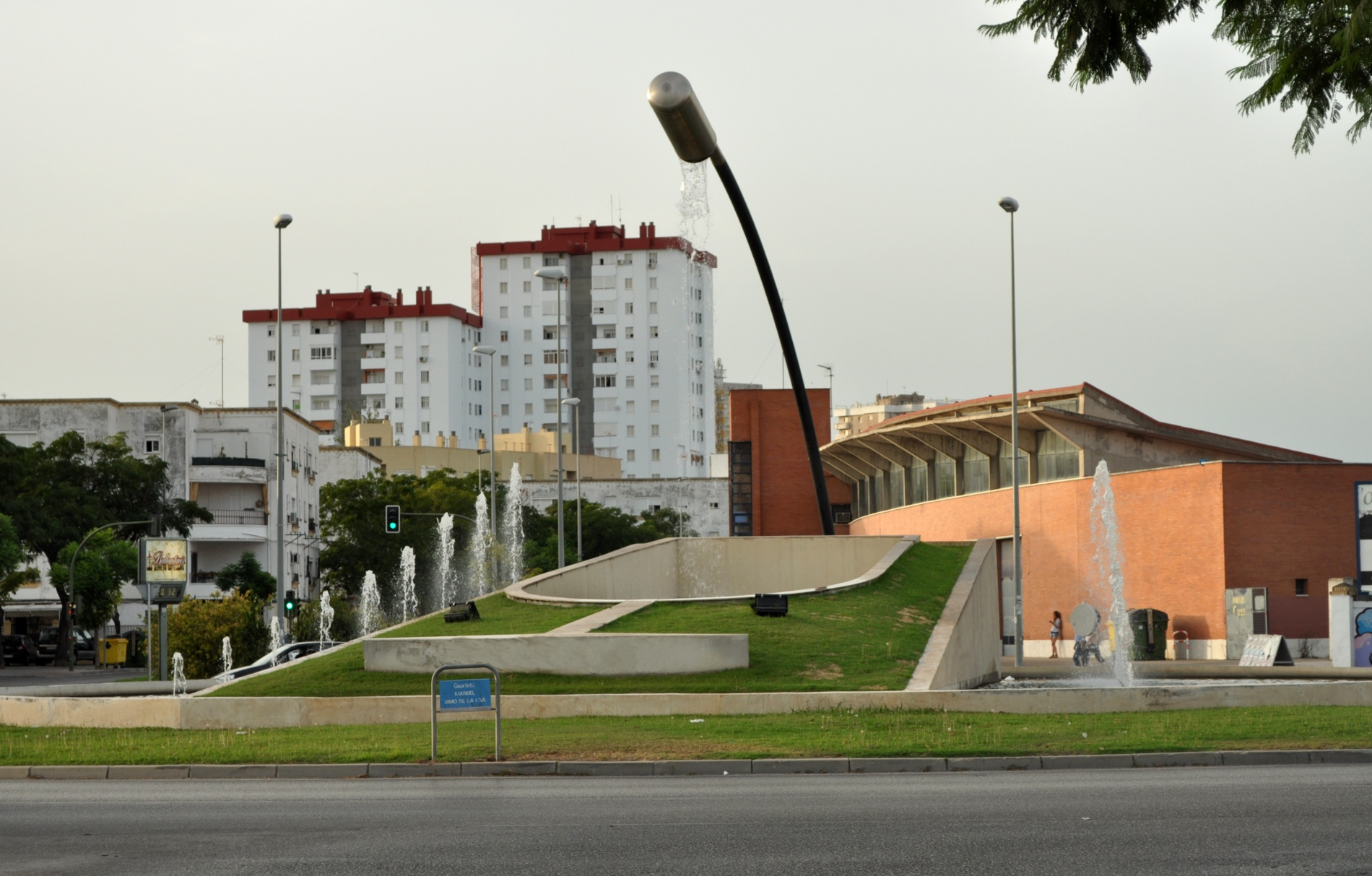 Venencia Roundabout, Jerez